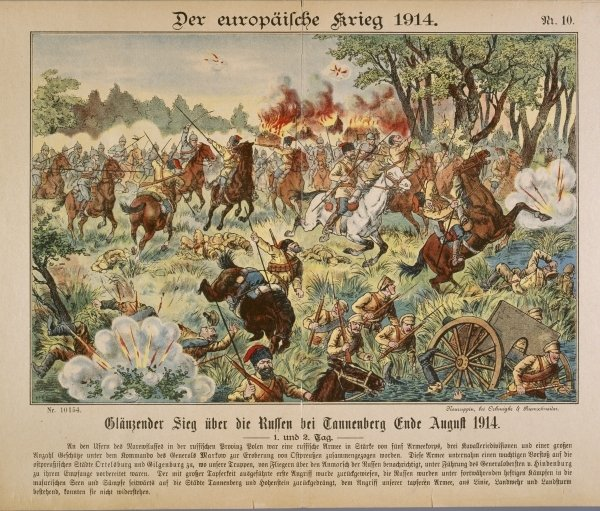 German ww1 print deppicting the battle of Tannenberg, 1914